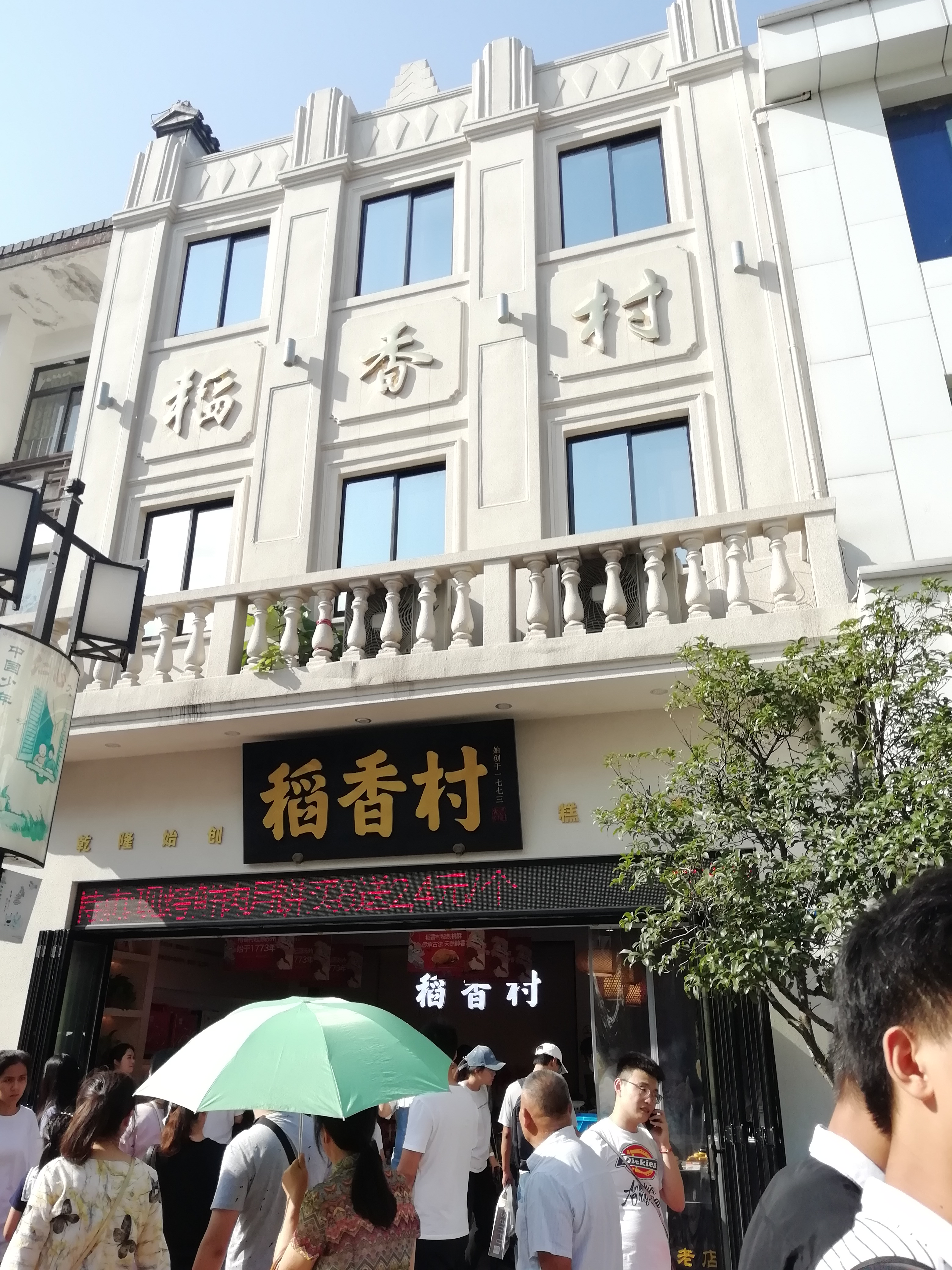 Daoxiangcun Store, located on Guanqian Street. Today is Mid-autumn festival, and there is many people to buy mooncakes in the store. 中文（中国大陆）: 观前街稻香村总店